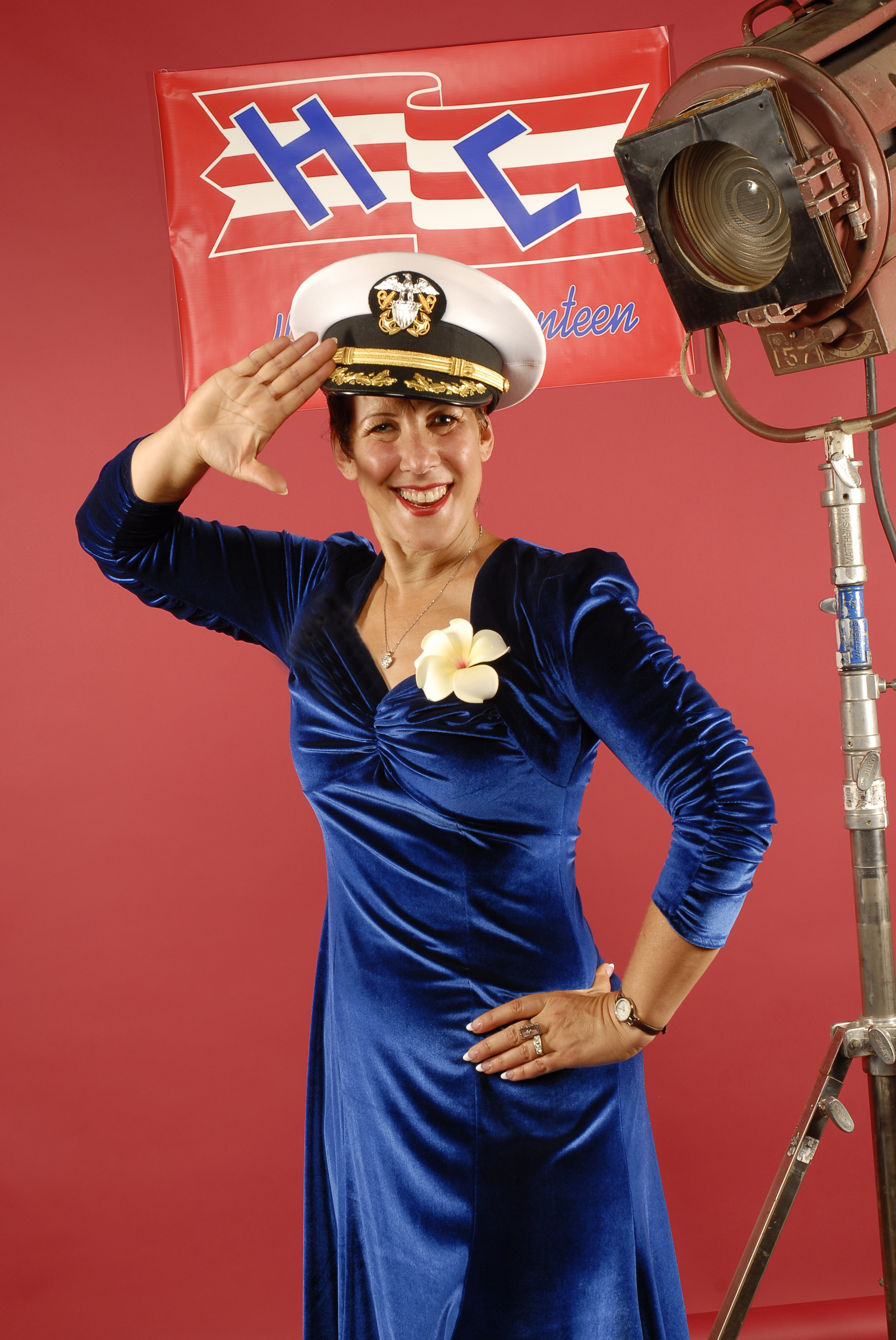 Rusty Frank: Lindy Hop & Tap Dancer, Chorographer, Producer, and Writer